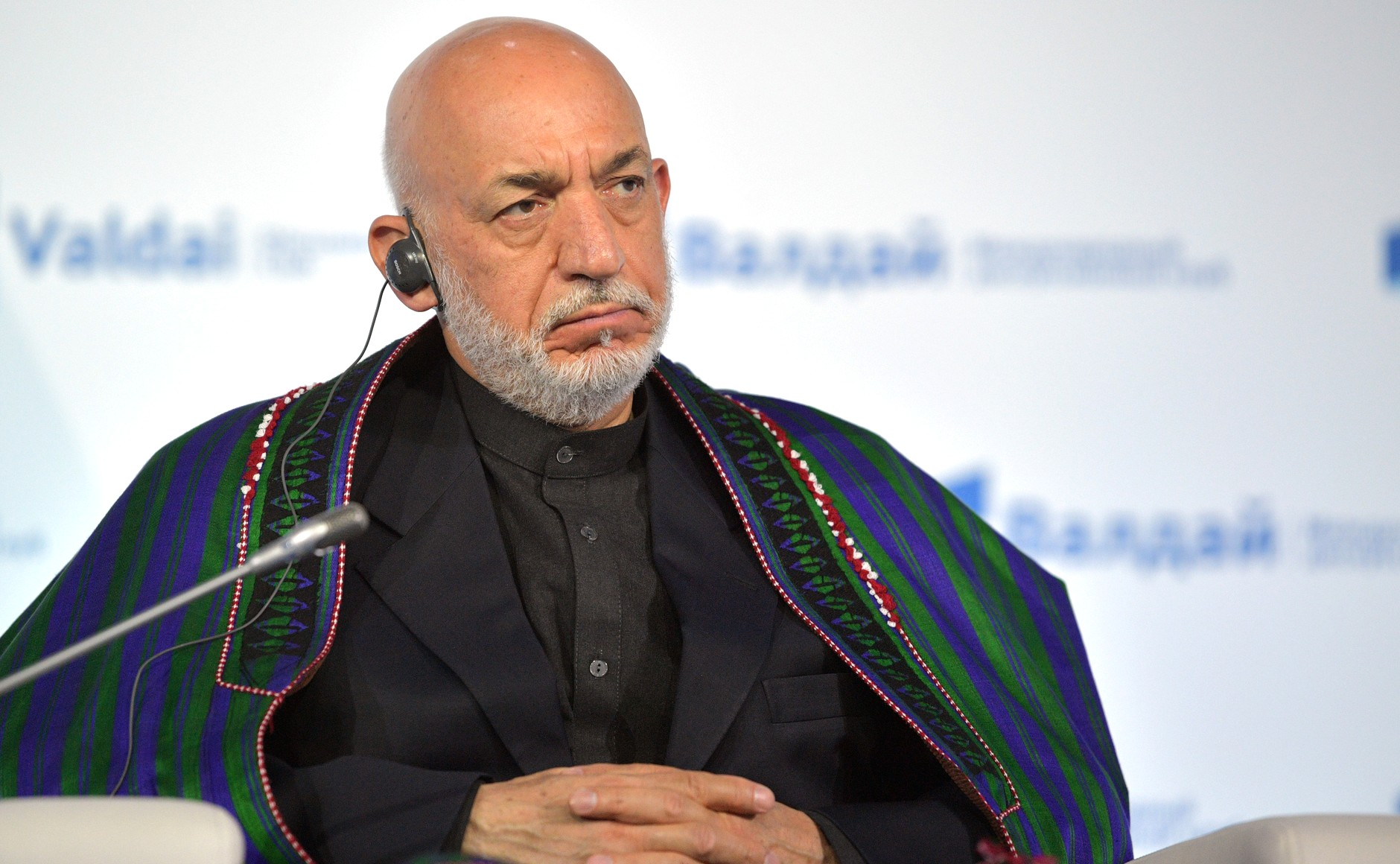 Former President of the Islamic Republic of Afghanistan, Hamid Karzai, at a meeting of the Valdai International Discussion Club.